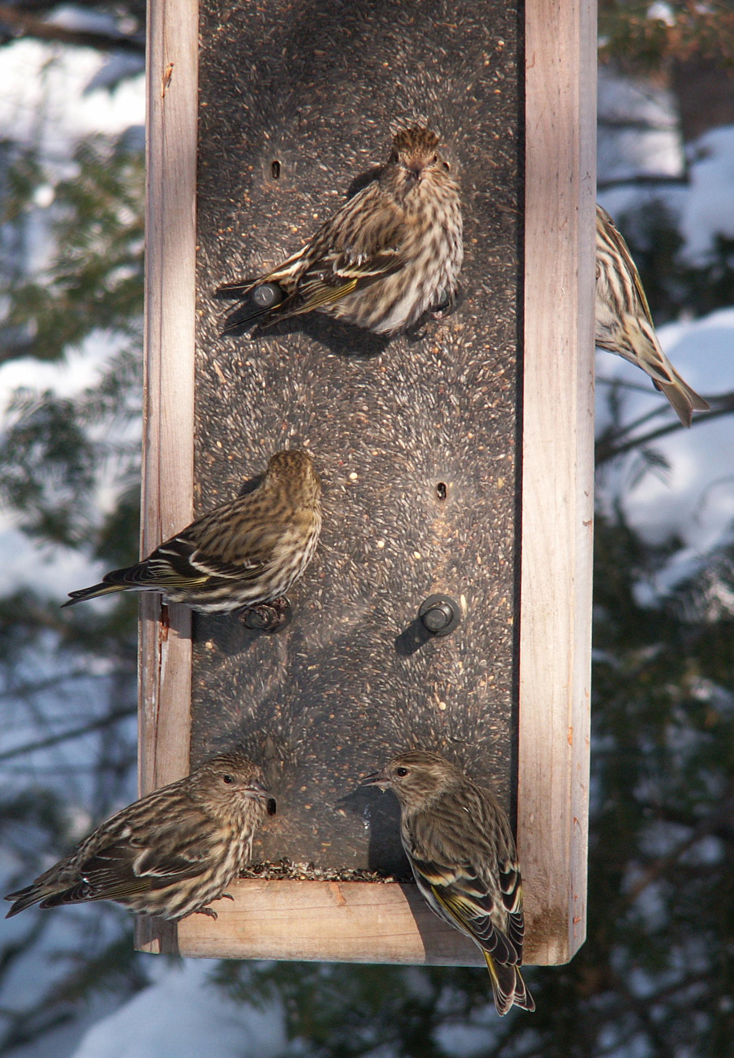 Pine siskins (Carduelis pinus) on feeding on Nyjer, Cap Tourmente National Wildlife Area, Quebec, Canada.